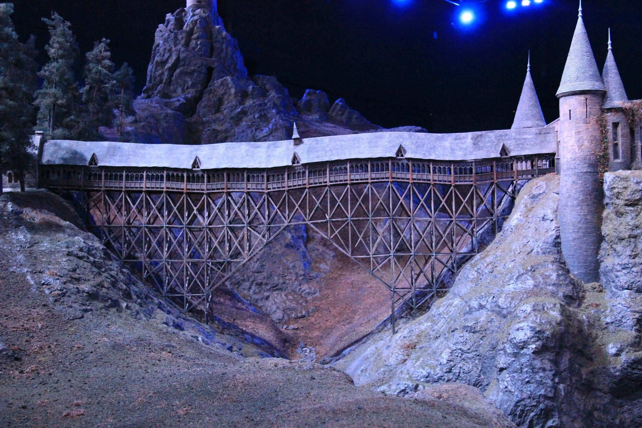 Warner Bros. Studio Tour London: The Making of Harry Potter.